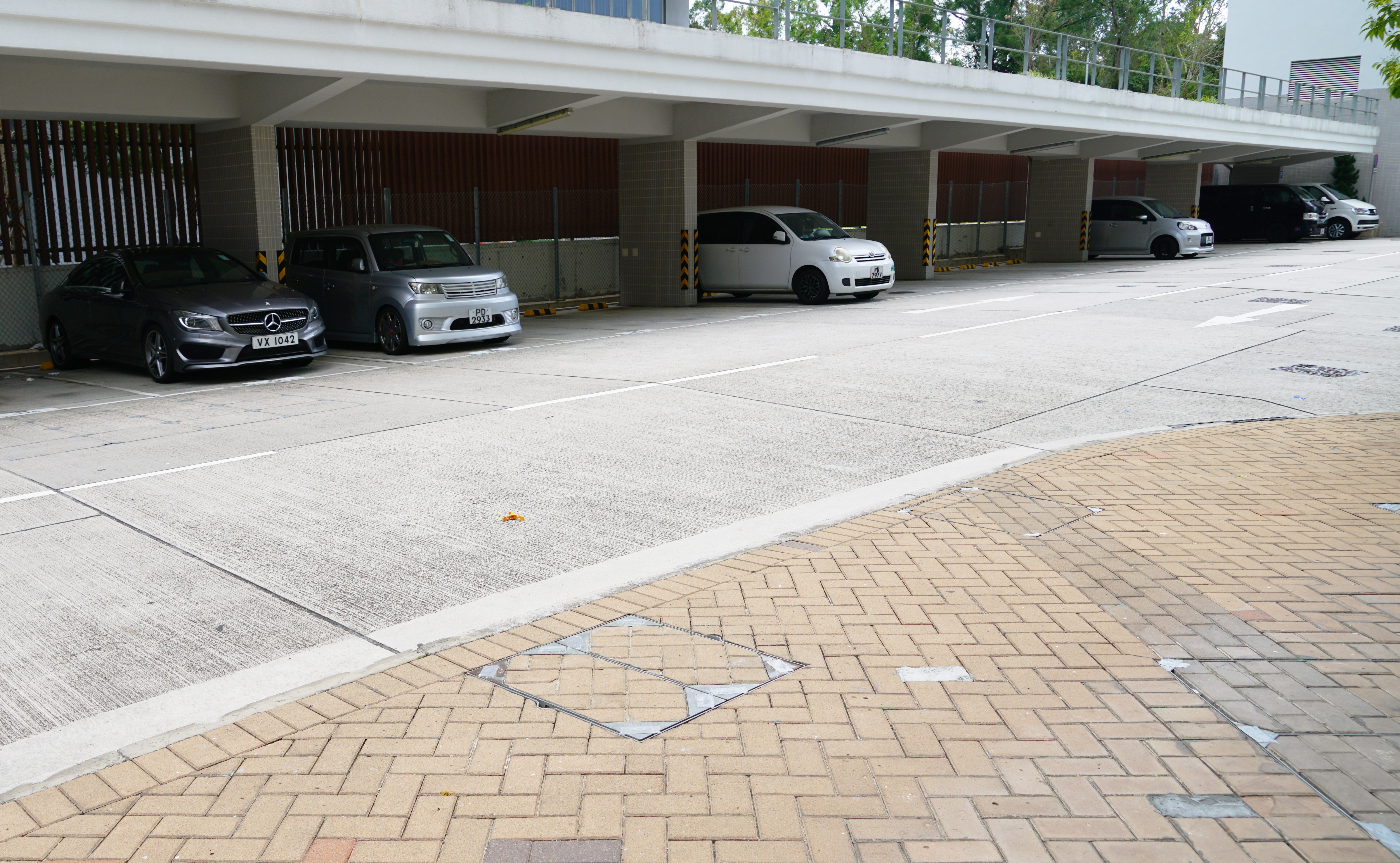 Cheung Lung Wai Estate, Hong Kong.